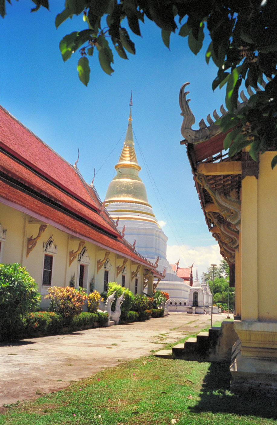 Wat Phra Kaeo Don Thao, Lampang, northern Thailand